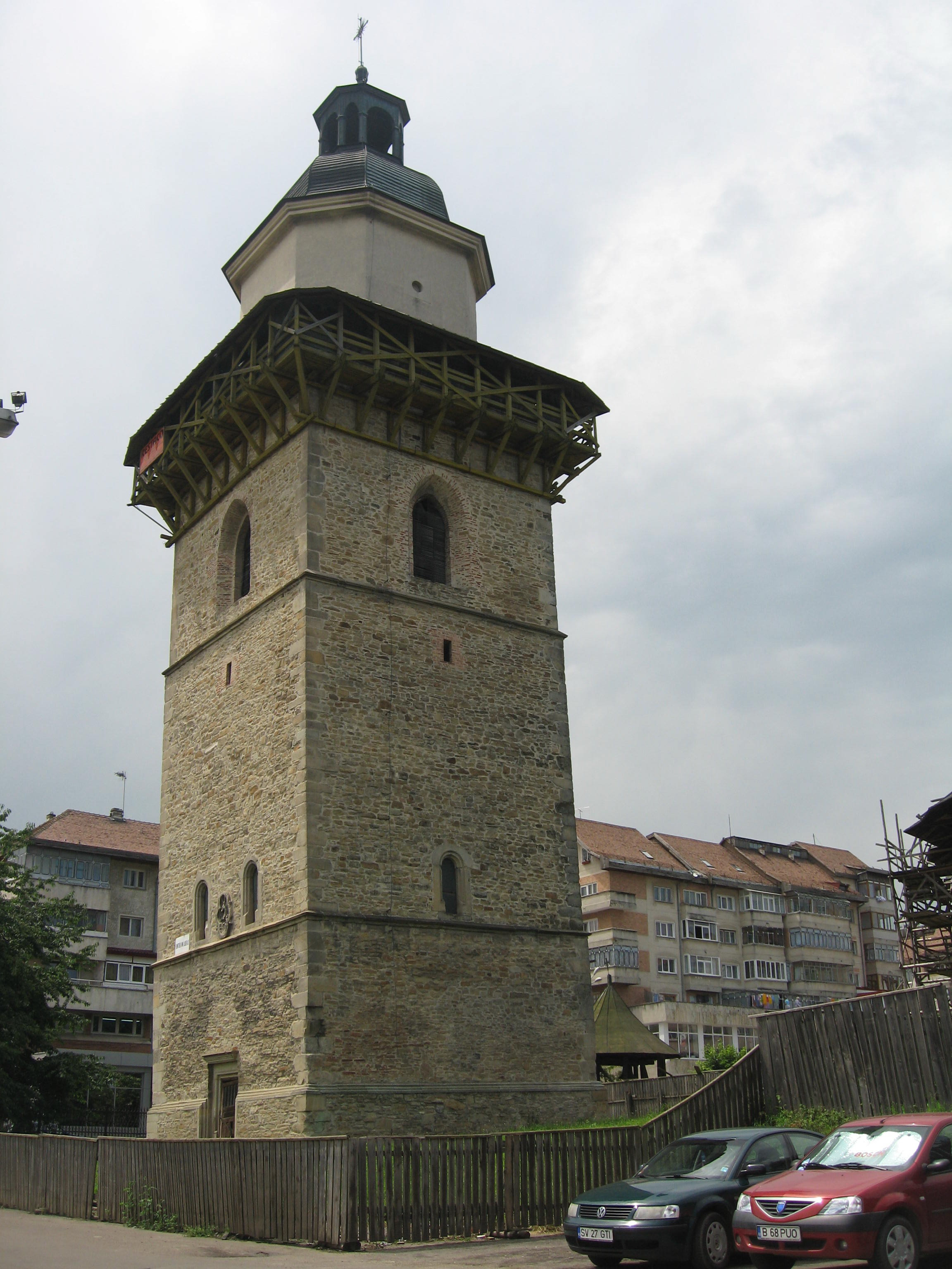 St. Demetrius Church in Suceava - The Tower of Alexandru Lăpuşneanu.